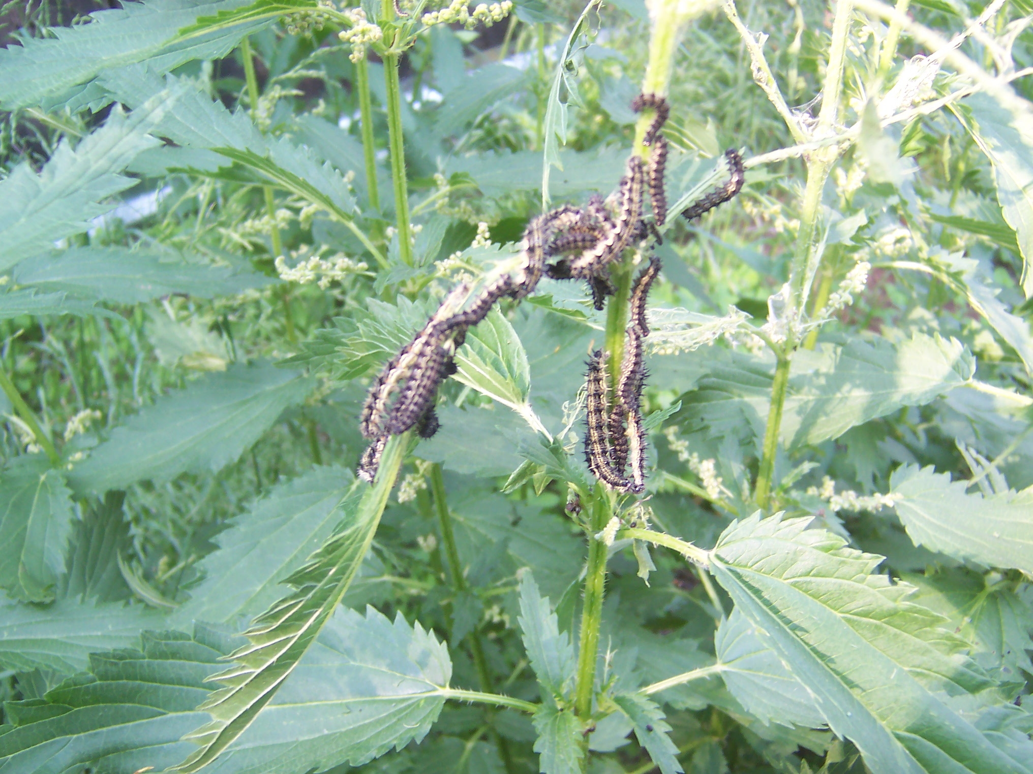 Larvae of Aglais milbert feeding on Urtica dioica in Crestone, Colorado about 11 am June 16, 2016